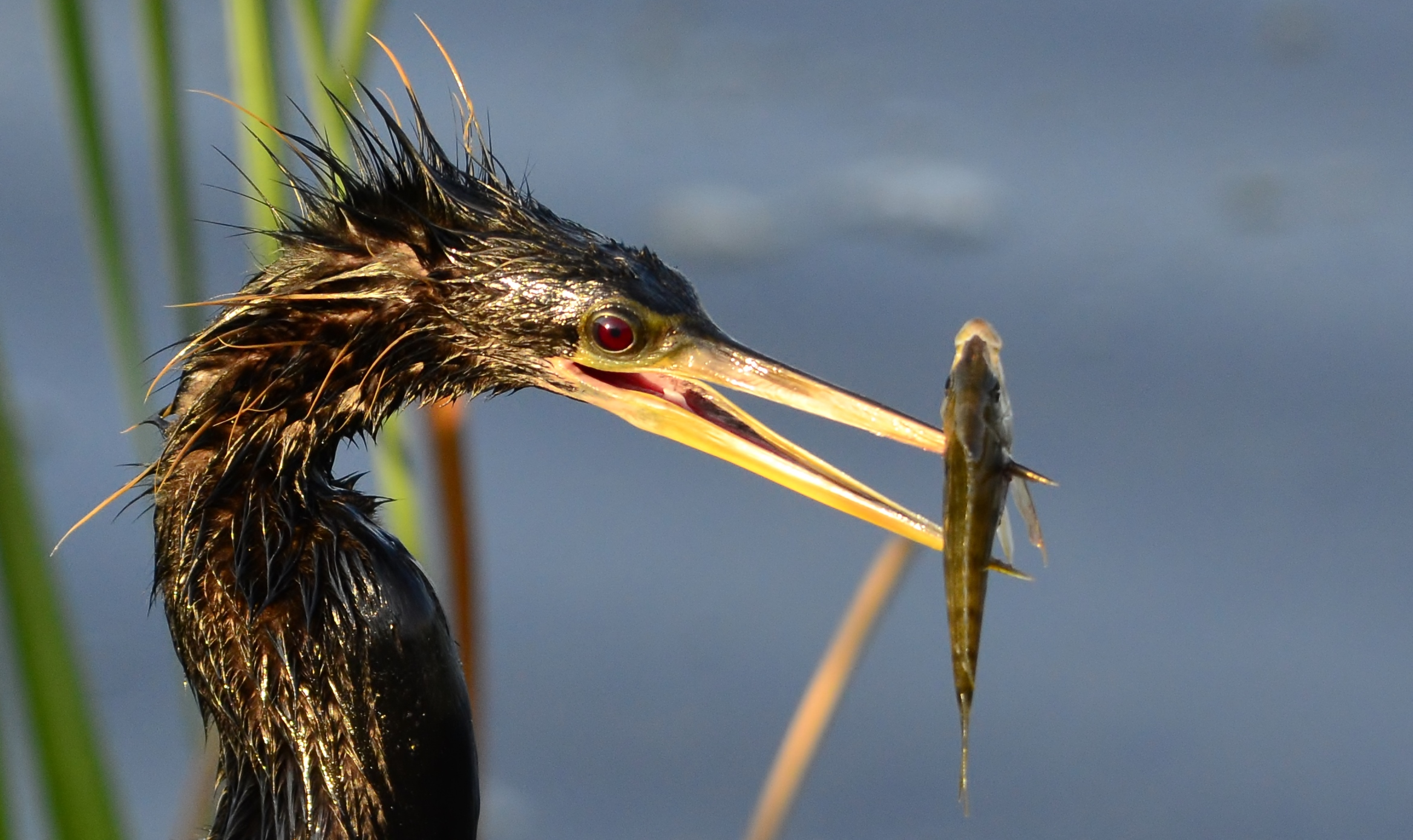 Huntington Beach State Park, Murrells Inlet, South Carolina, USA